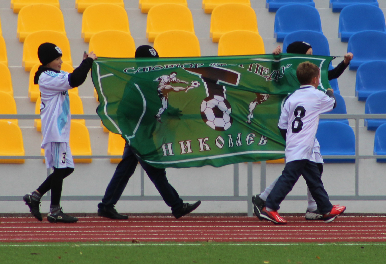 Flag SDUShOR Torpedo Mykolaiv